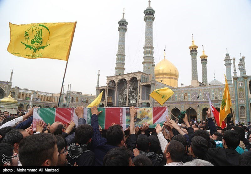 funeral of Iranians killed at T-4 base in Qom